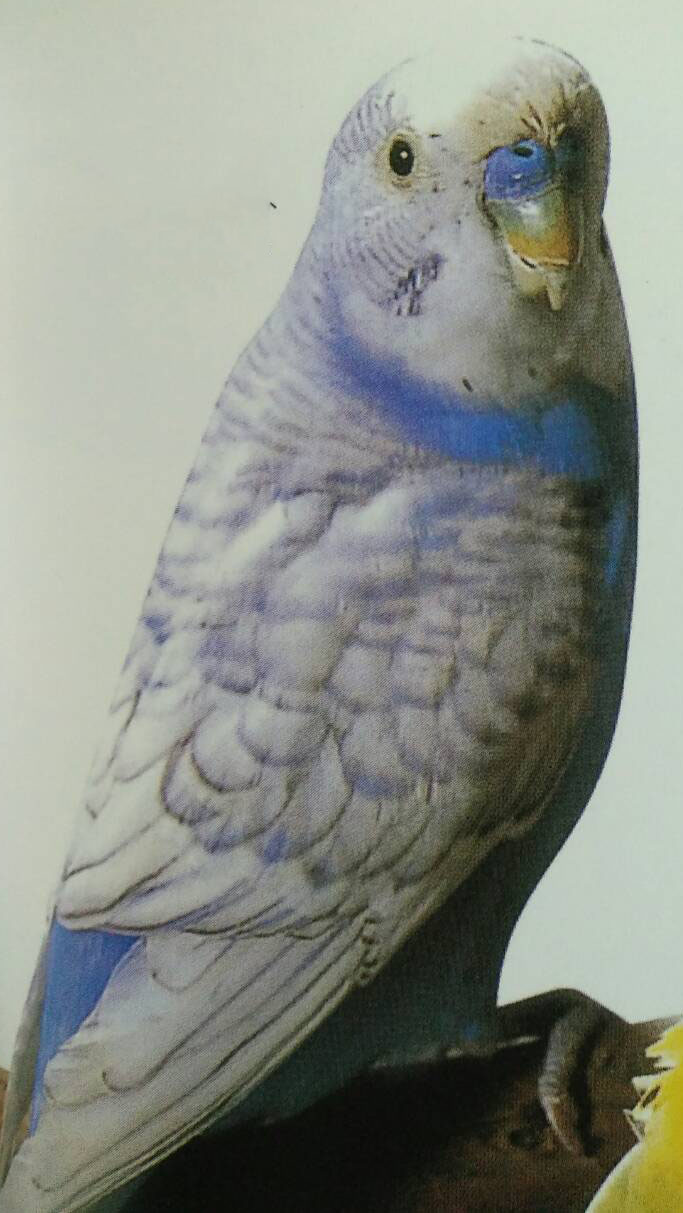 sb